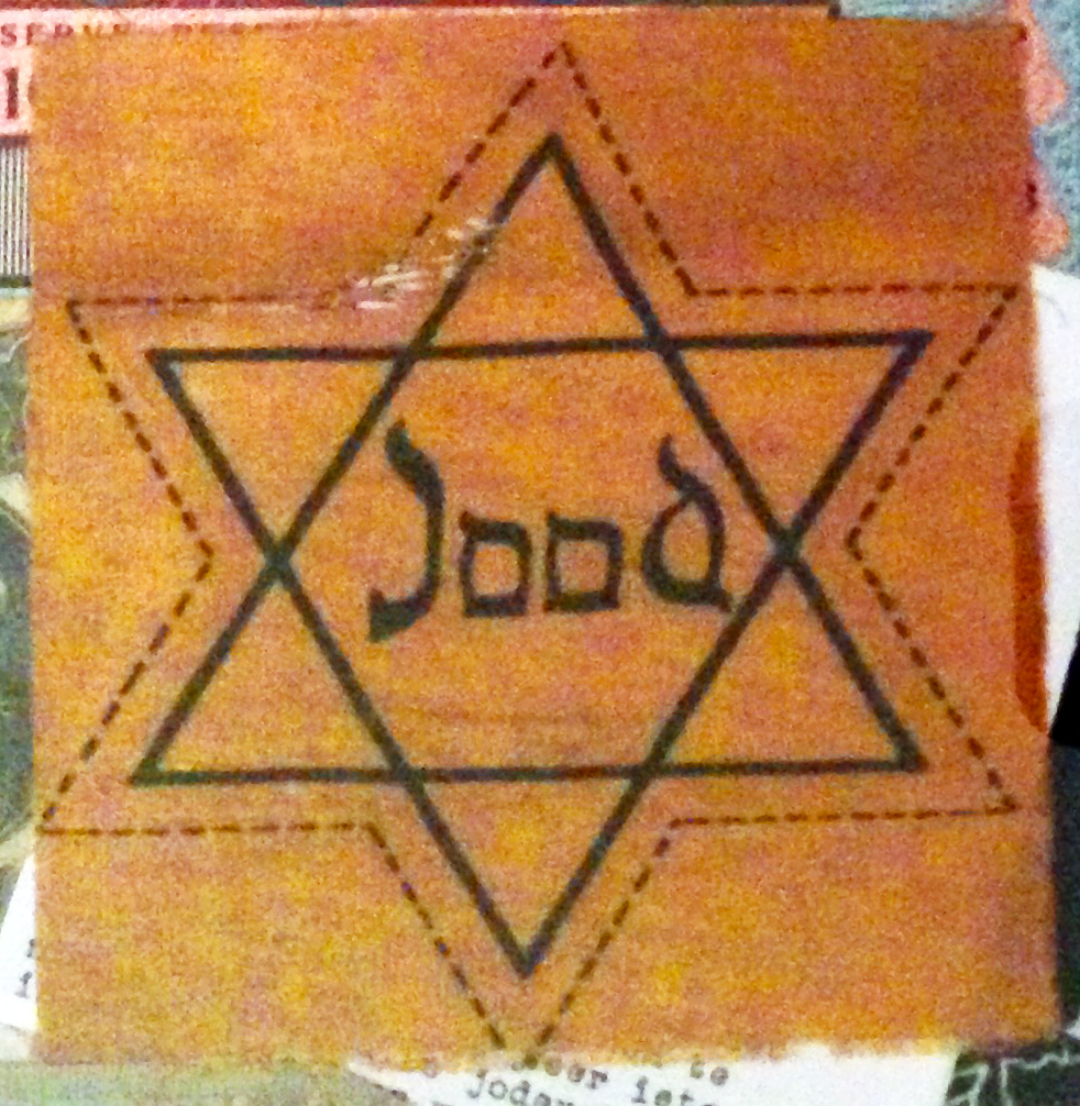 Yellow Star of David worn by Dutch Jews